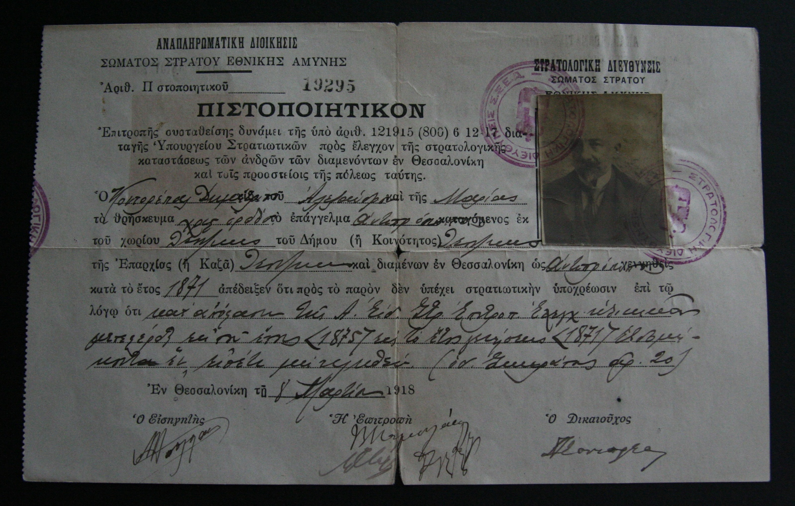 Dimitrios Kontorepas' Military Service Certificate 8 March 1918